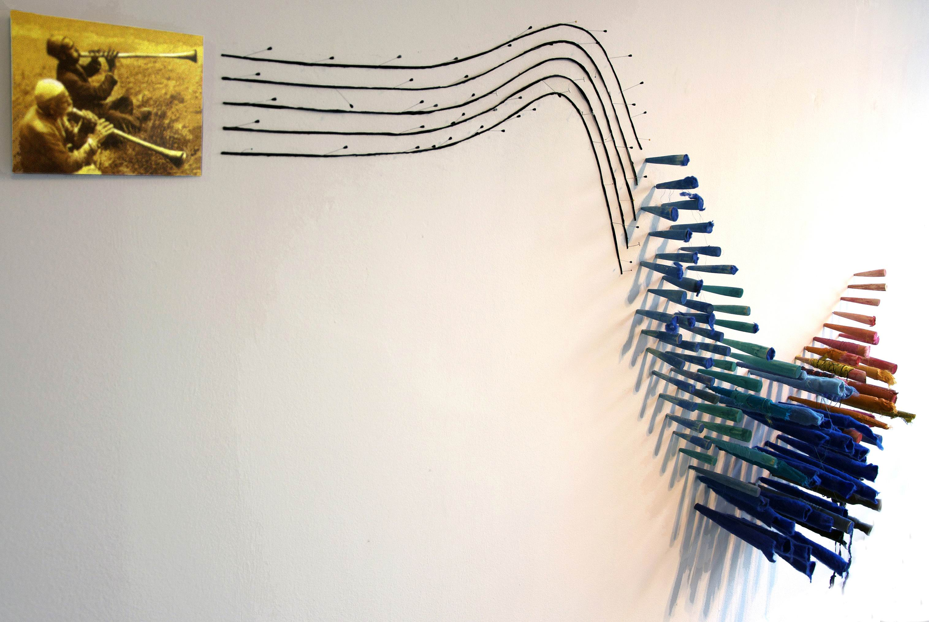 Aithor: Jovan Despotović. Picture made in Gallery Ozon, Belgrade, 26 septembre 2012